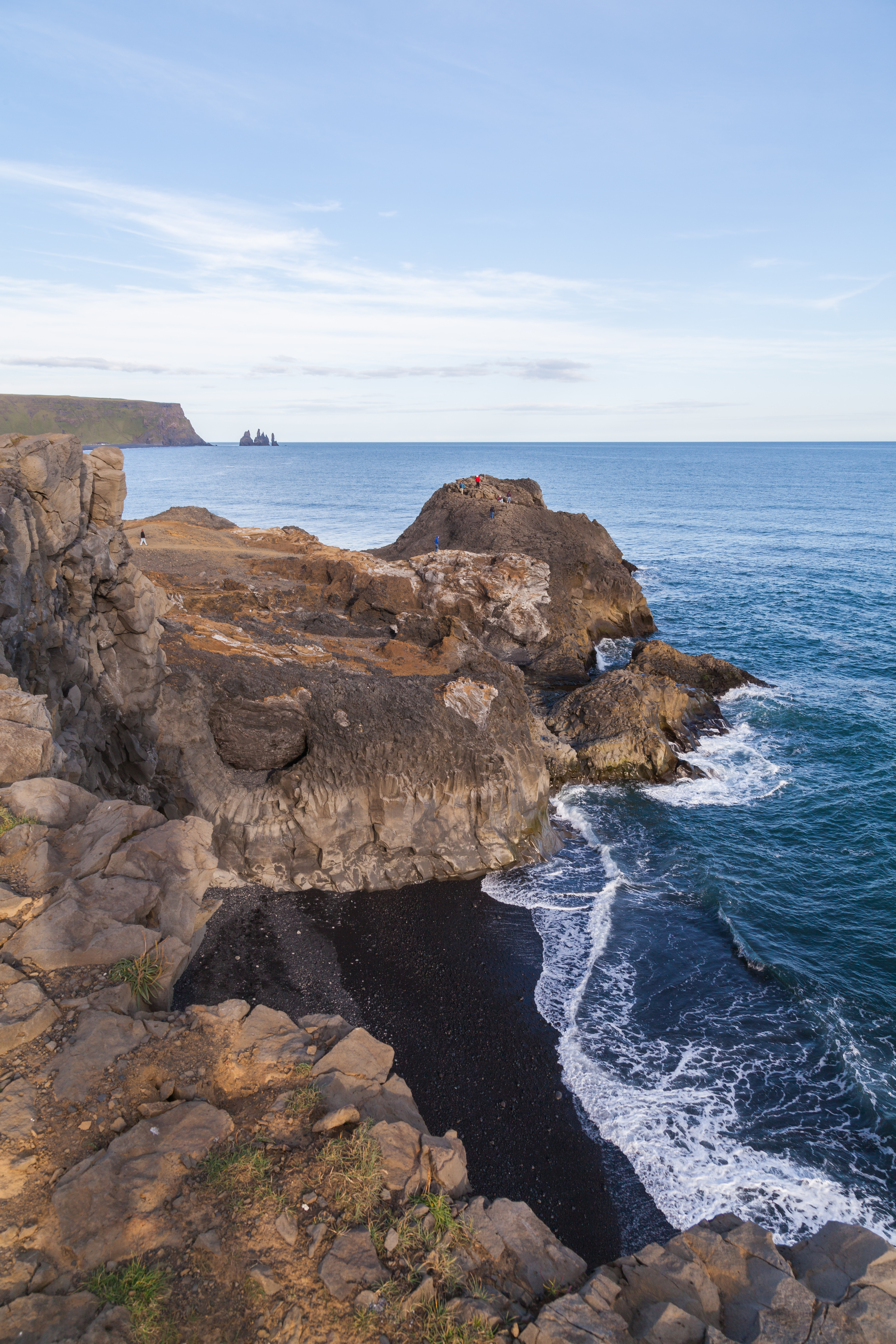 Reynisfjara, Suðurland, Iceland